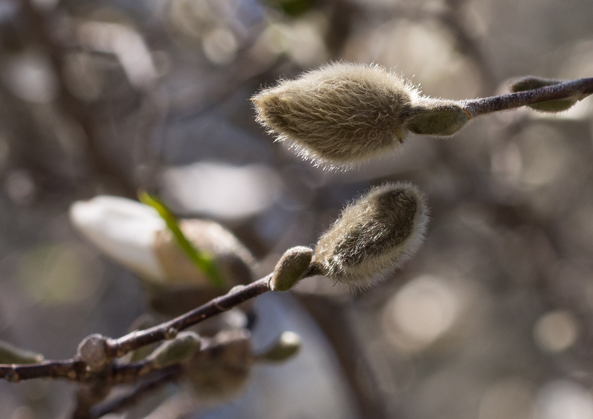 Star magnolia (Magnolia stellata) buds at the Brooklyn Botanic Garden.